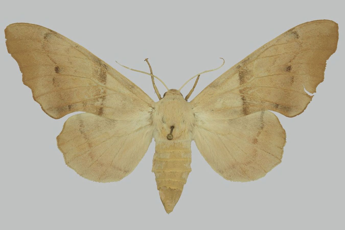 Laothoe philerema philerema, female, upperside. Tajikistan, "Tigrovaya balka"